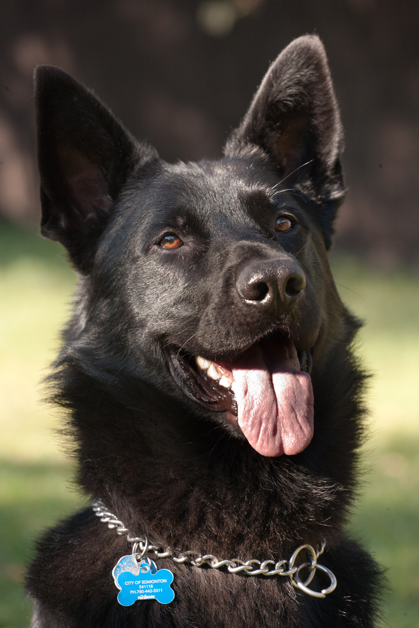 Close-Up Of German Shepherd Dog, 2 Years Old